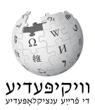 A logo for Wikipedia in the Yiddish language.